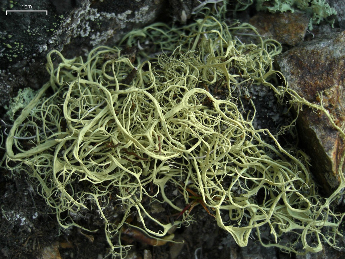 Alectoria sarmentosa (Ach.) Ach. ssp. vexillifera (Nyl.) D. Hawksw 20090820.39 Raft Mountain, Wells Gray Park, BC Called a subspecies, there is some e question whether this deserves taxonomic status, or if it is just a growth form prompted by the harsh alpine conditions.